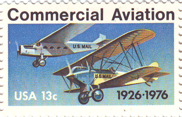 U.S. Postage Stamp issued in 1976 honoring the 50th Anniversary of U.S. Commercial Aviation (1926-1976) Scott #1684. Illustrated on the stamp are the first two airplanes used to carry U.S. Air Mail under contract: Ford-Stout AT-2 (upper) and Laird Swallow (lower). CAM-6 (Detroit-Cleveland) and CAM-7 (Detroit-Chicago) were inaugurated using the AT-2 on February 15, 1926, and CAM-5 (Pasco, WA to Elko, NV) using the Swallow on April 6, 1926.